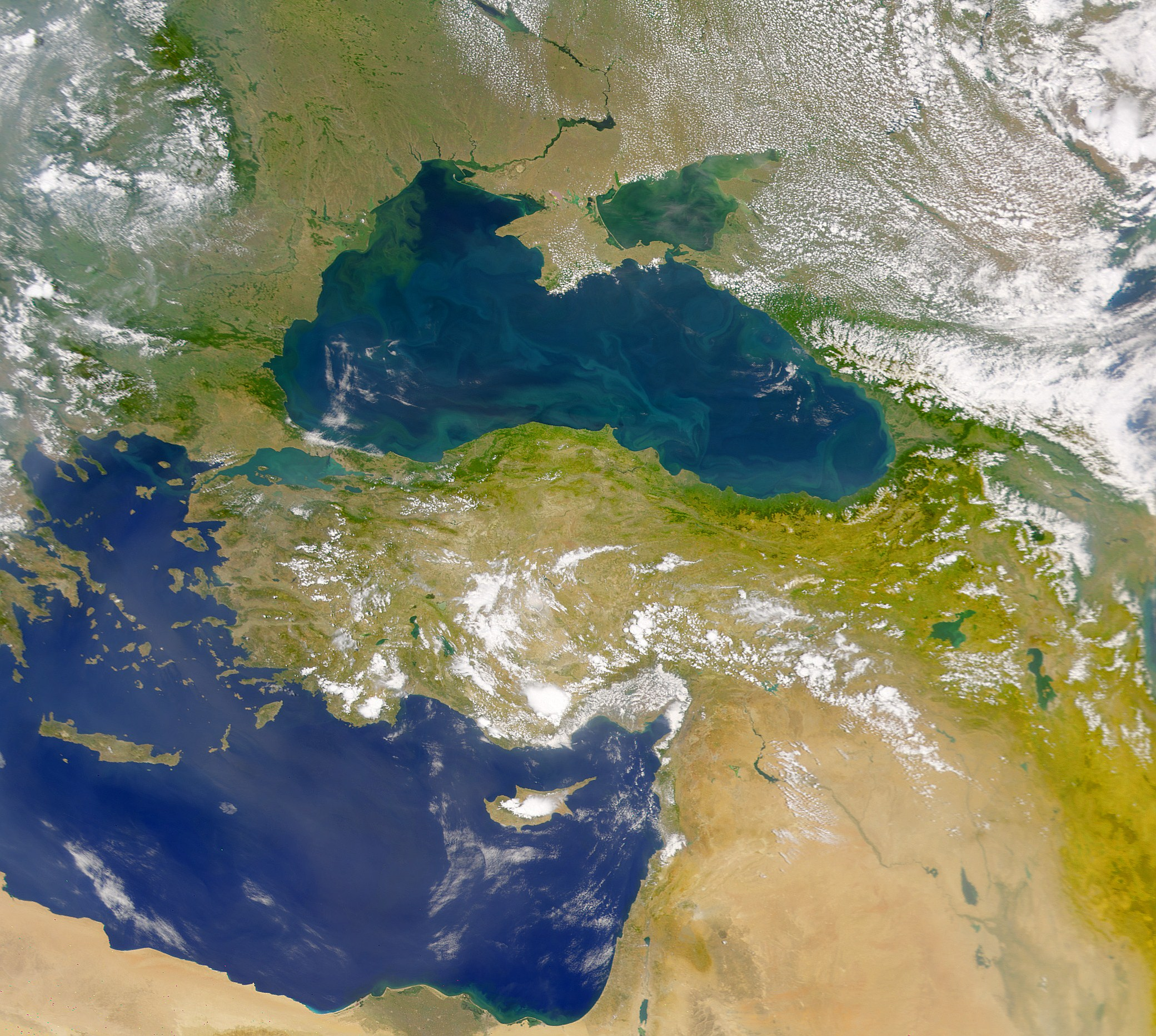 This cloud-free Sea-viewing Wide Field-of-view Sensor (SeaWiFS) view of the Black Sea reveals the colourful interplay of currents on the lake’s surface. The green crescent shaped pattern in the north-western corner of the Black Sea is due to the nutrient-rich, sediment-laden discharge of the Danube River stimulating biological activity. The brighter, more turquoise patterns on the lake to the south and east are probably blooms of another type of phytoplankton.